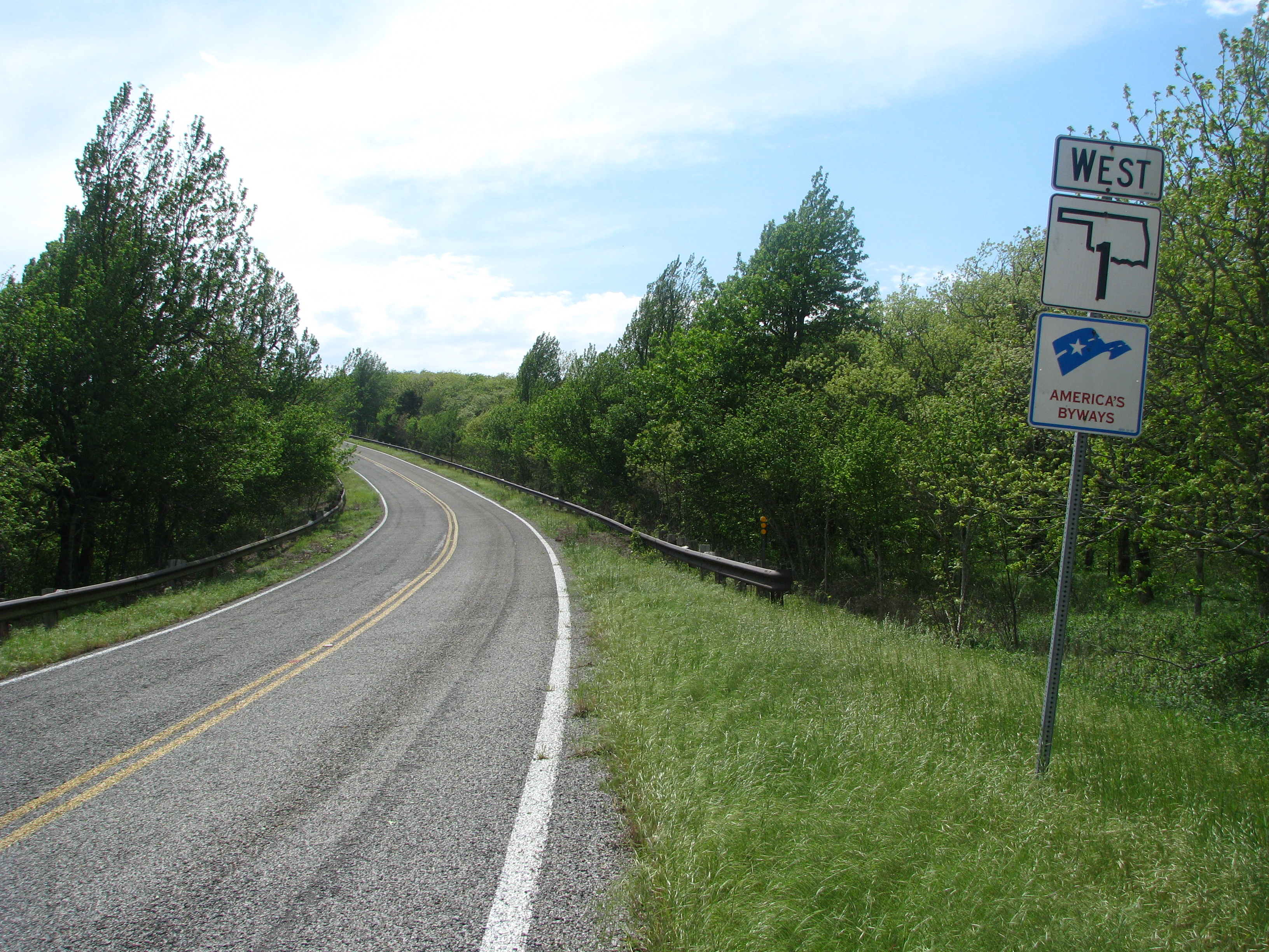 I took this photo just west of the Arkansas and Oklahoma state line on May 10th, 2018. I took this with my Canon PowerShot S5 IS